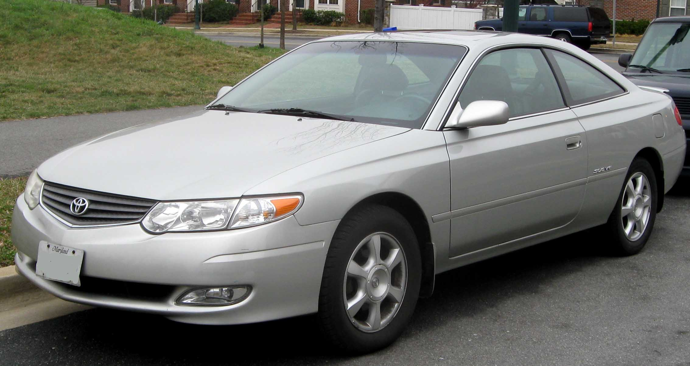 2002-2003 Toyota Solara photographed in Rockville, Maryland, USA.